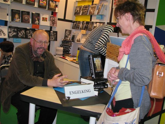 Leszek Engelking (b. February 2, 1955 in Bytom, Poland) – Polish poet, short-story writer, critic, essayist, scholar, and translator. He lives in Brwinów, Poland.